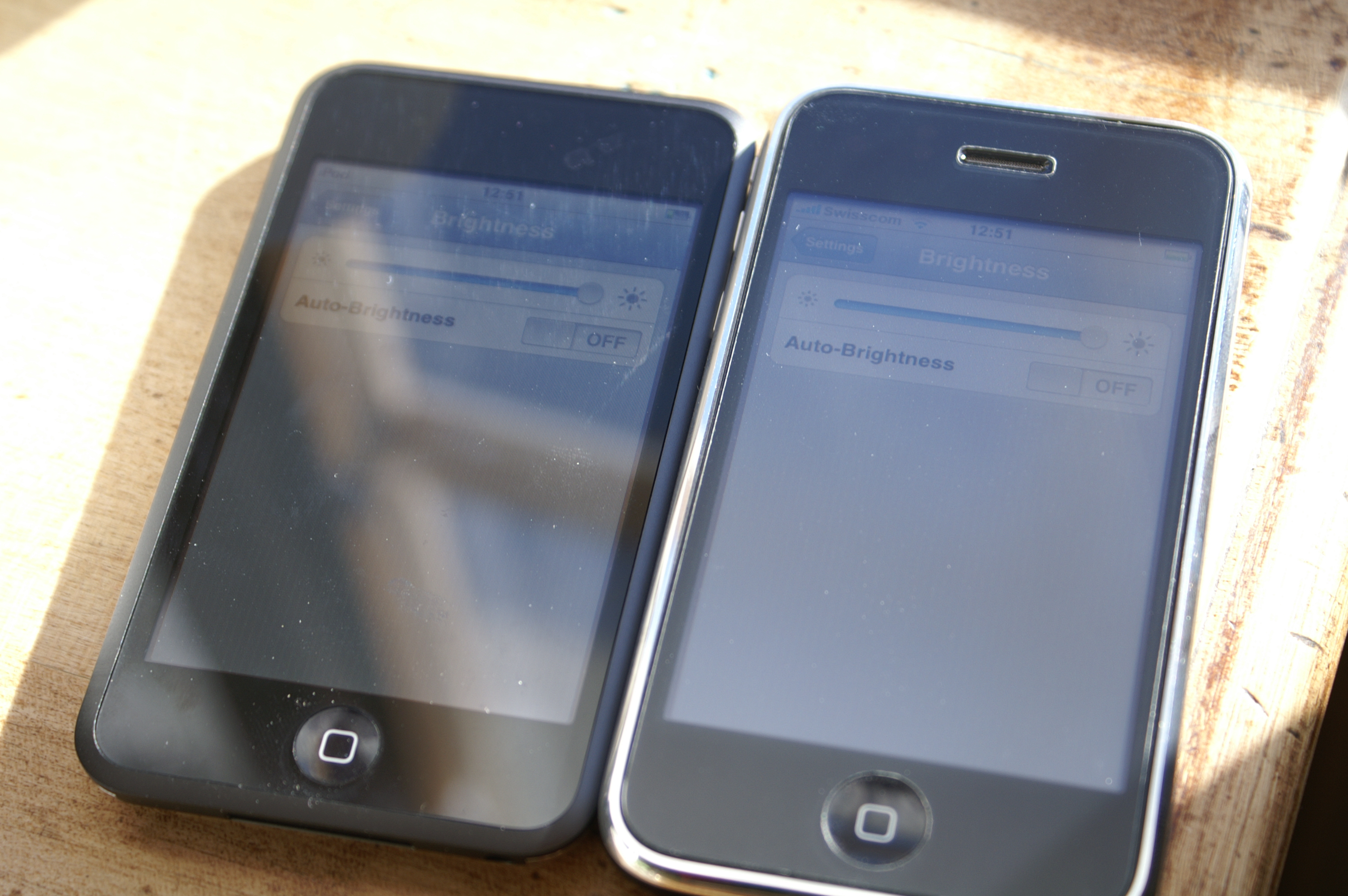 When I complain about the lack of matte finish on newer Apple products' screens, people often tell me that it doesn't matter anymore because the displays are bright enough to overcome reflections. Well, this is a picture of my plain old iPod and my iPhone with a matte screen protector lying next to each other on my desk, both having the brightness cranked up to the max. The advantage of having an anti-glare coating seems obvious.